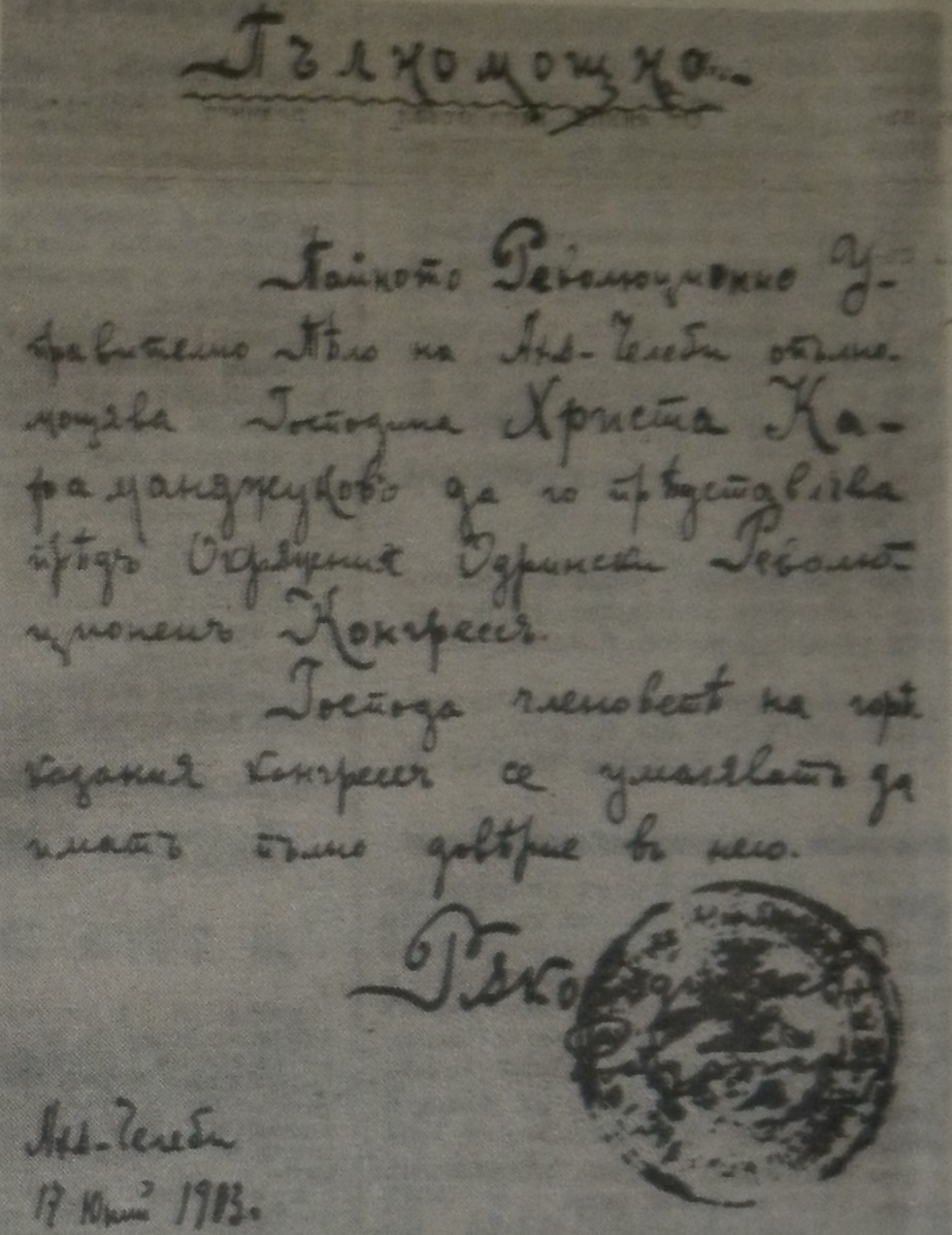 Hristo Karamandzhukov Petrova Niva Document 17 June 1903